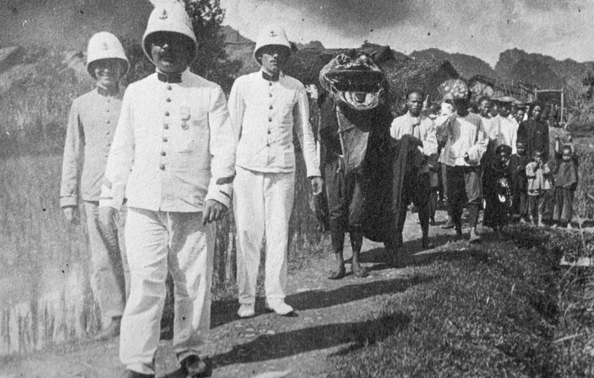 French colonials in Indochina in the late 19th century.